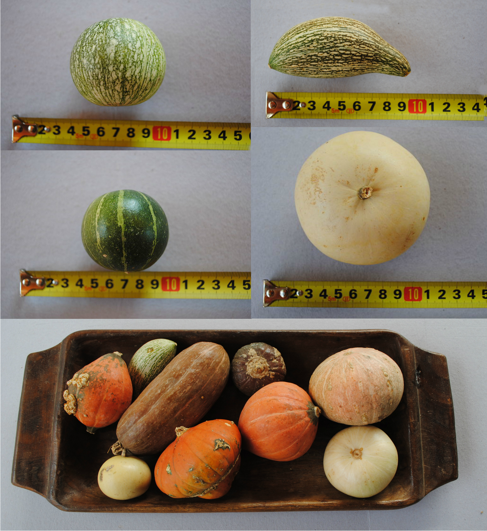 Cucurbita maxima subsp. andreana, decorative gourd accesions. Bottom: Assorted Cucurbita maxima decorative edible and non-edible gourds.